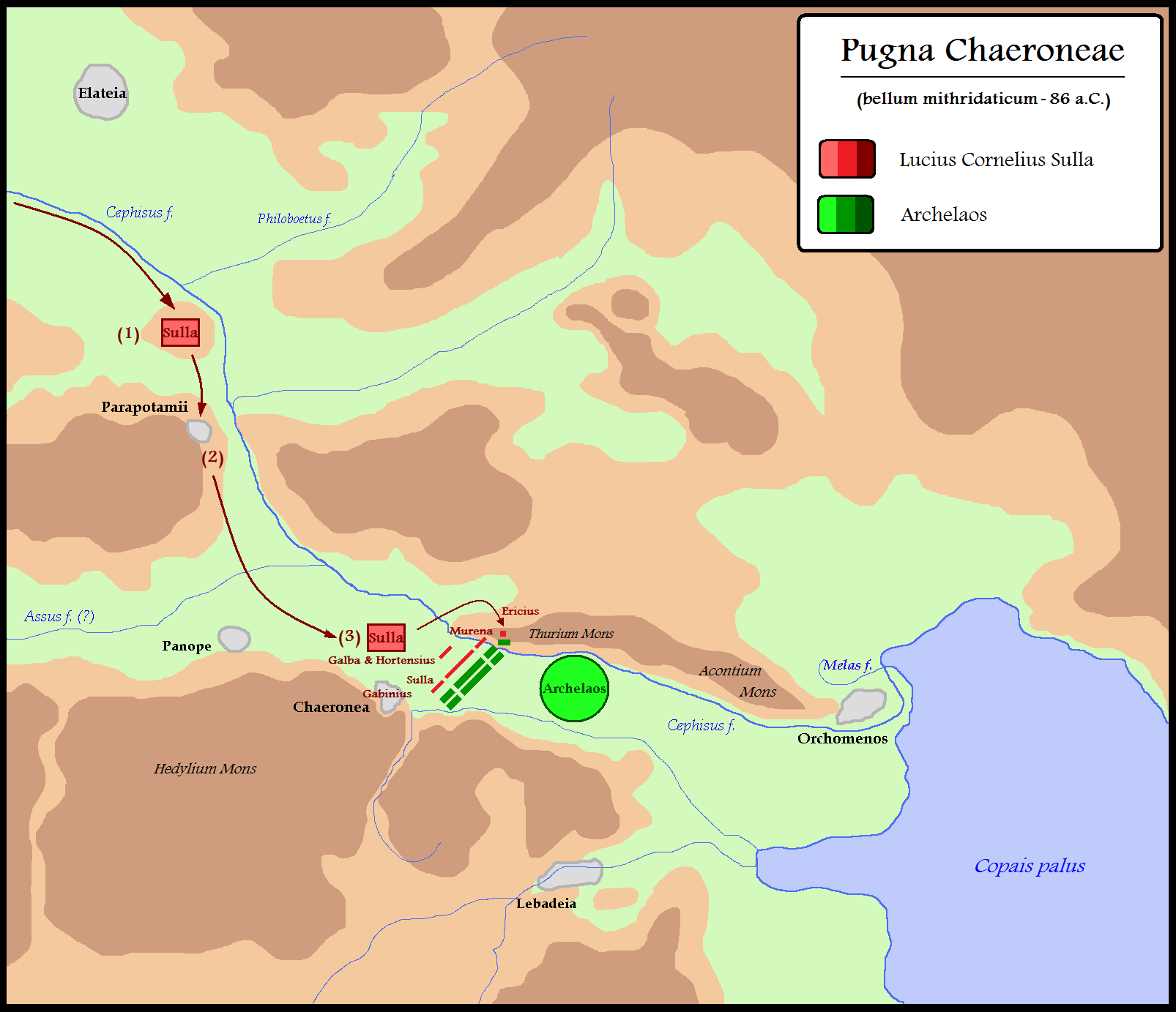 Battle of Cheroneia (86 BC) between L.Cornelius Sulla and Archelaos (Mithridate's general)